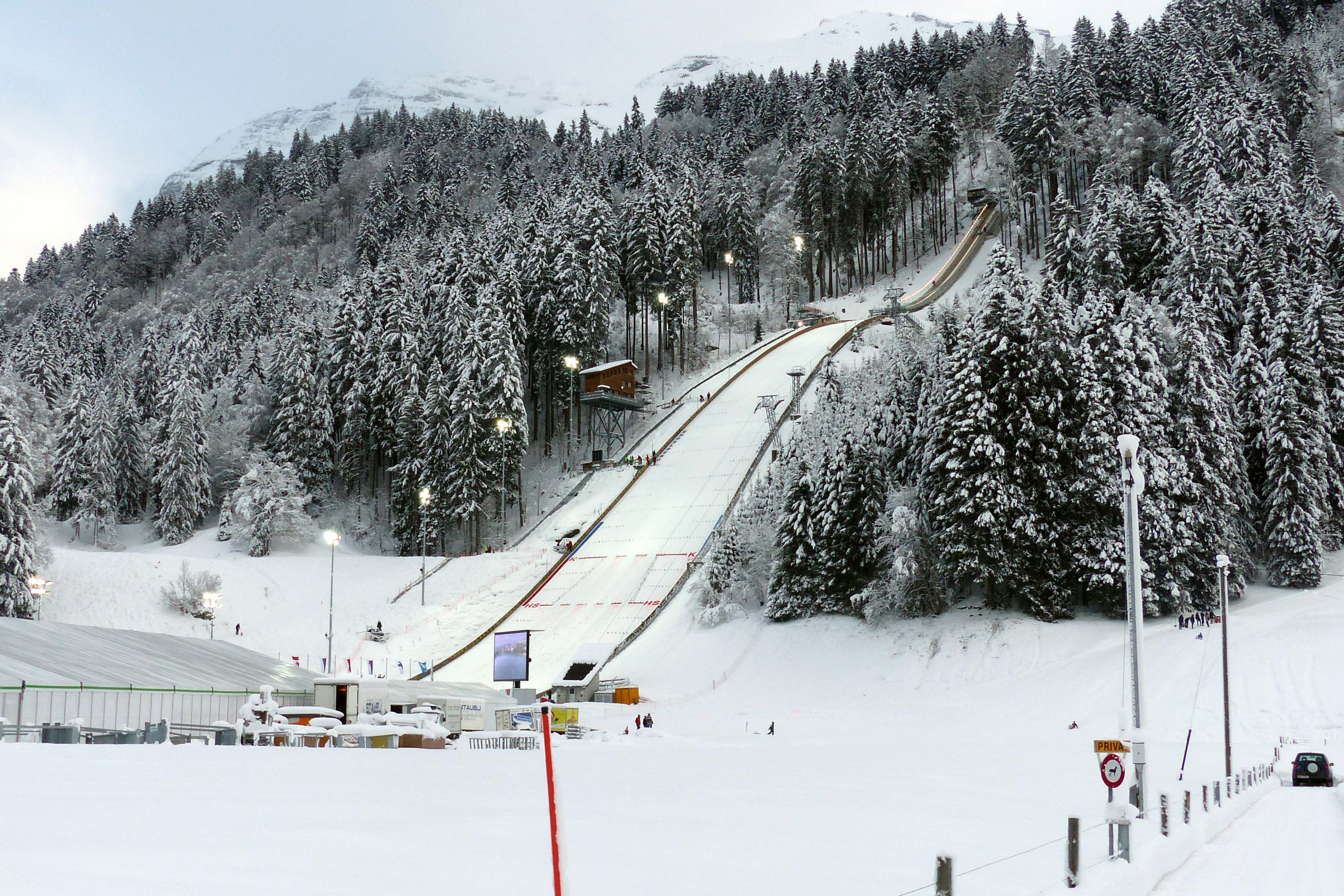 Gross-Titlis-Schanze in December 2017